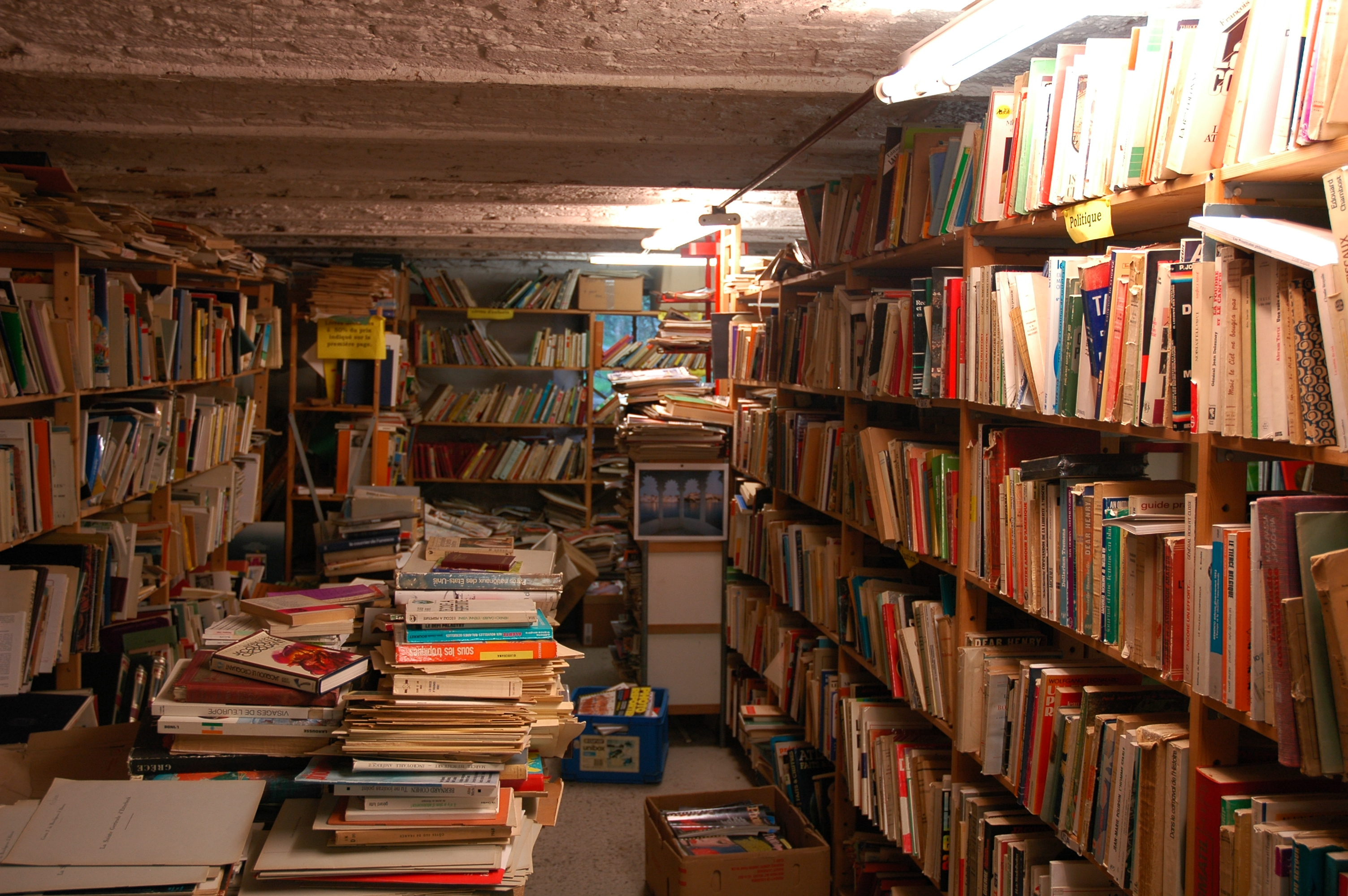 A second-hand bookshop in Redu, Belgium